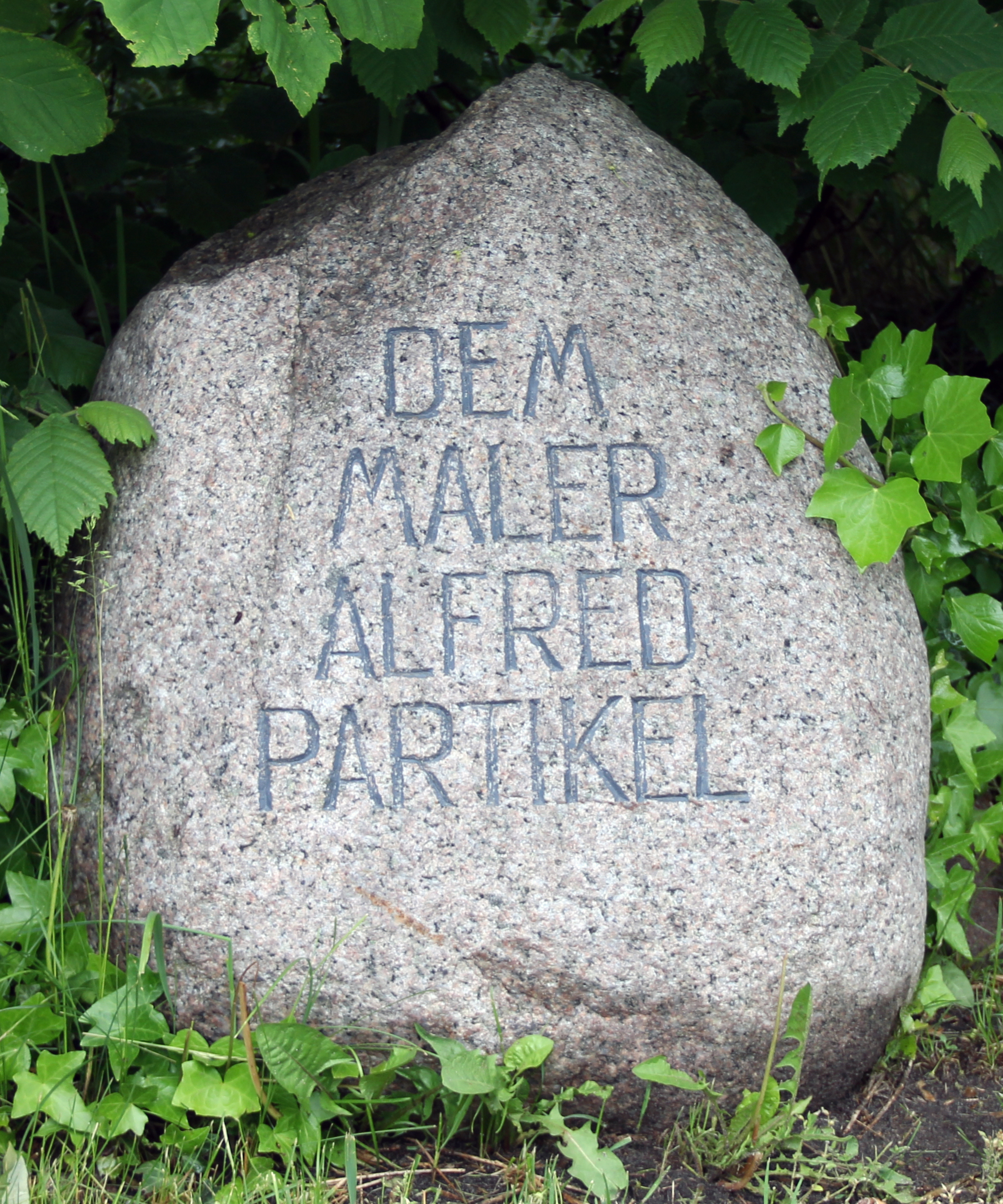 Memorial stone, Alfred Partikel, Strandweg 1, Ahrenshoop, Germany